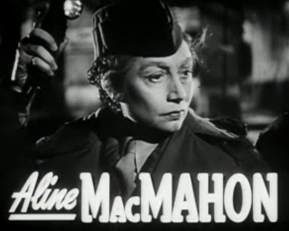 Cropped screenshot of Aline MacMahon from The Search. Further cropped from Image:Montgomery Clift in The Search trailer.jpg